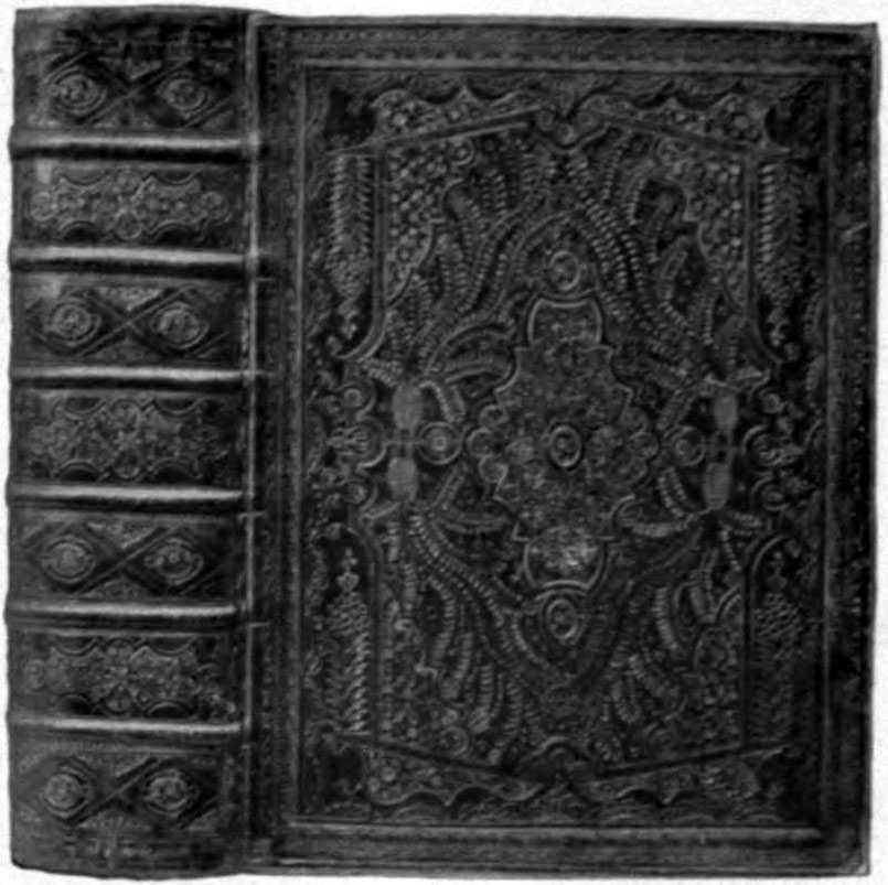 Leather book binding of a copy of the Book of Common Prayer (London)